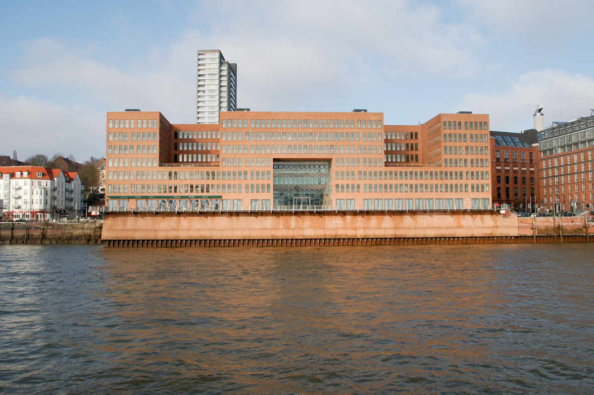 "Vexierbild" (picture puzzle), a Holzhafen building in Hamburg, Germany, designed by Christiaanse's ASTOC firm, Holzhafen by KCAP Architects & Planners (Kees Christiaanse), 2003 Hamburg, Germany taken April 7, 2009